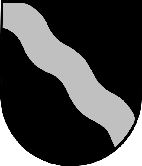 Coat of arms of Wolkersdorf, Lower Austria